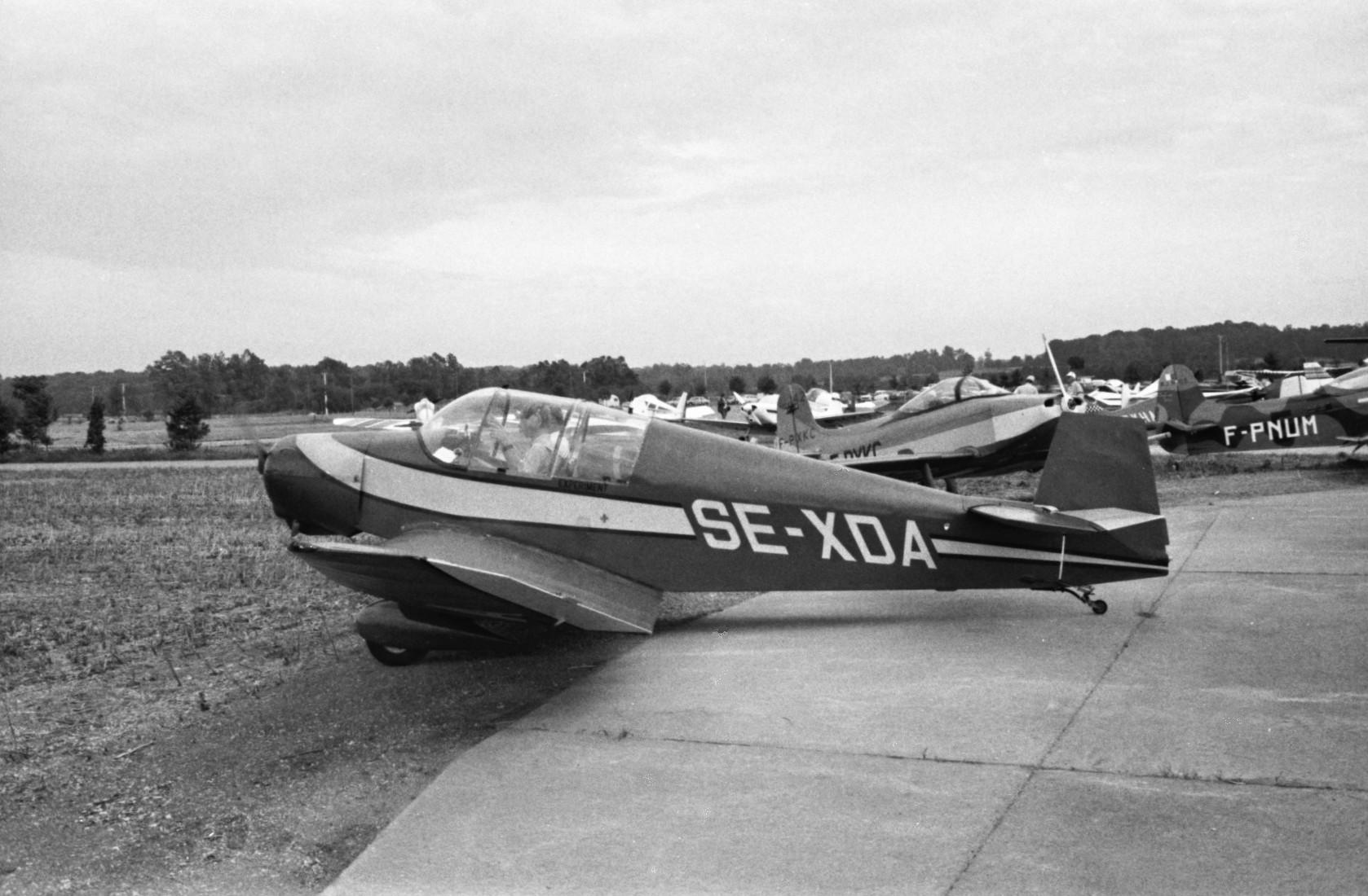 Jodel D113 at R.S.A European rally, Brienne-Le-Chateau august 1982